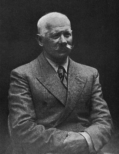 Andreas Madsen - Pioneer - Since 1901 in Patagonia